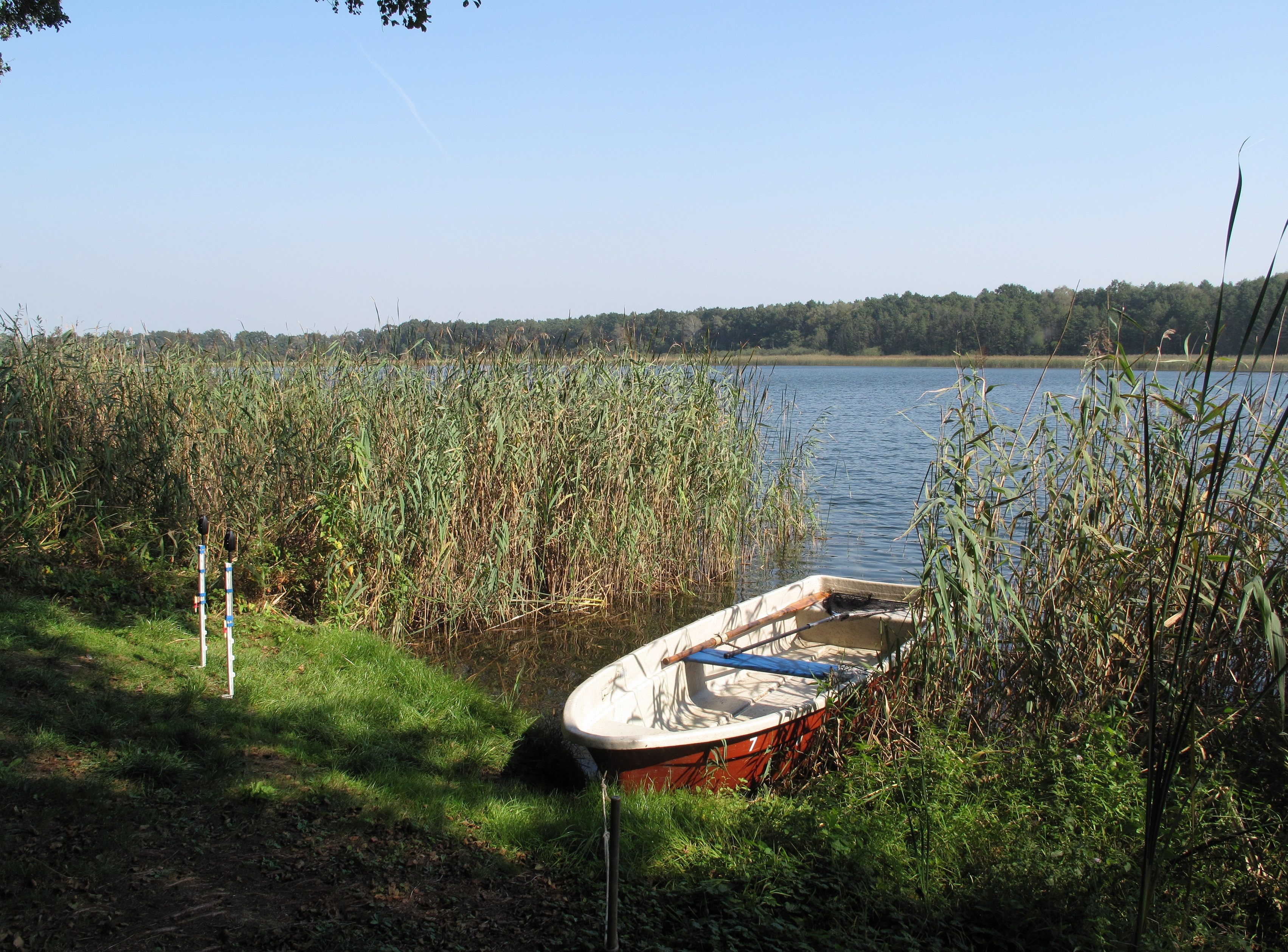 View over the Ranziger See from the western shore to the northeast. The Ranziger See is a lake in in the village Ranzig, a part (german: Ortsteil) of the municipality Tauche in the District Oder-Spree, Brandenburg, Germany. The lake covers 36 hectare and has a depth of max. twelve meters. The village centre of Ranzig is situated on the northwestern shore.